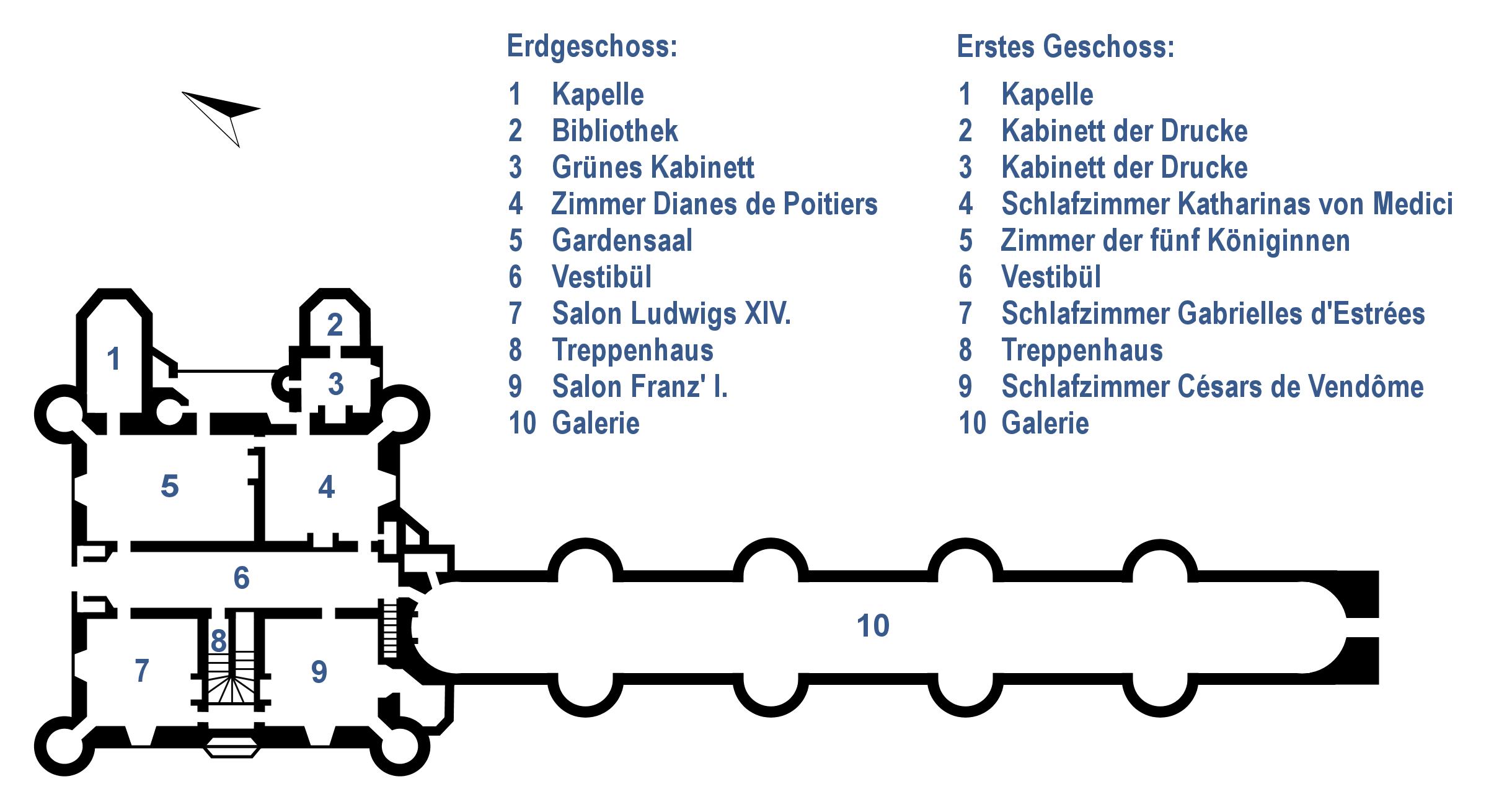 Floor plan of the château de Chenonceau